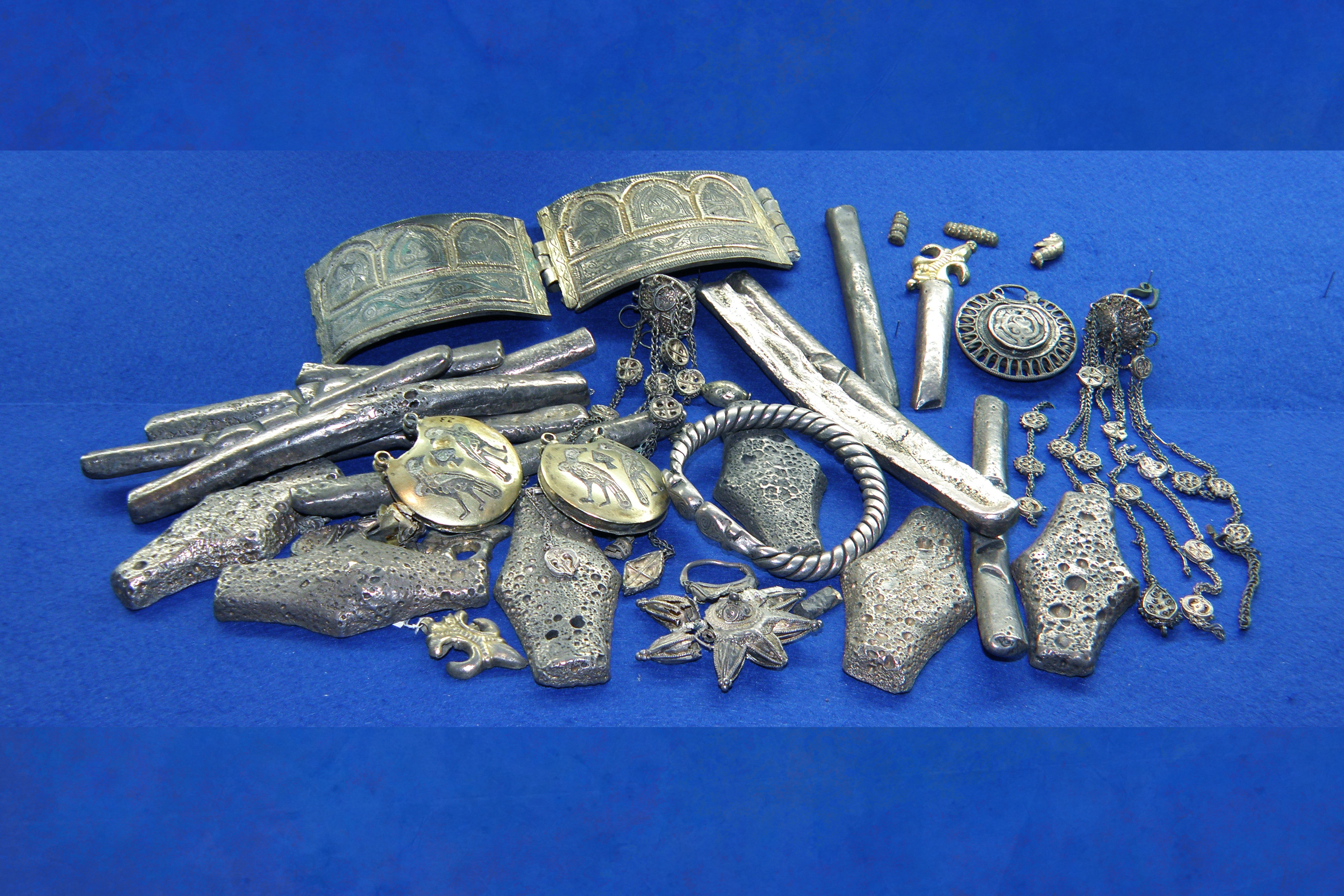 Vishchyn silver treasure trove in the museum of the Historical Faculty of the Belarusian State University. Excavated by Belarusian archaeologists in 1979 near Vishchyn in the south of Belarus